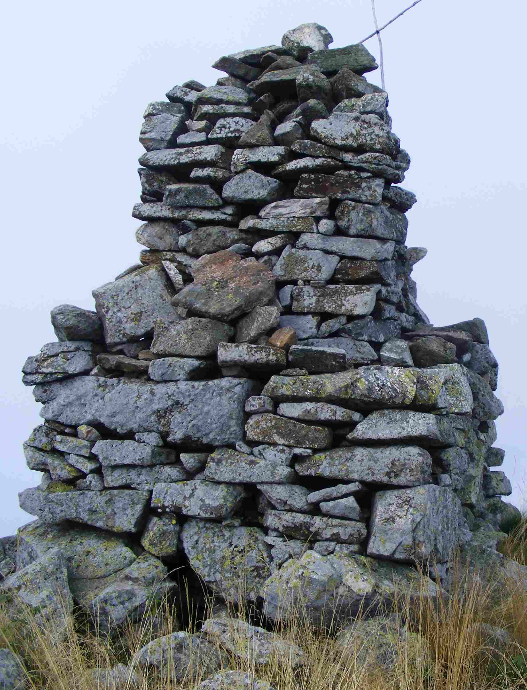 The massive cairn on Mount Colombano (TO, Italy)